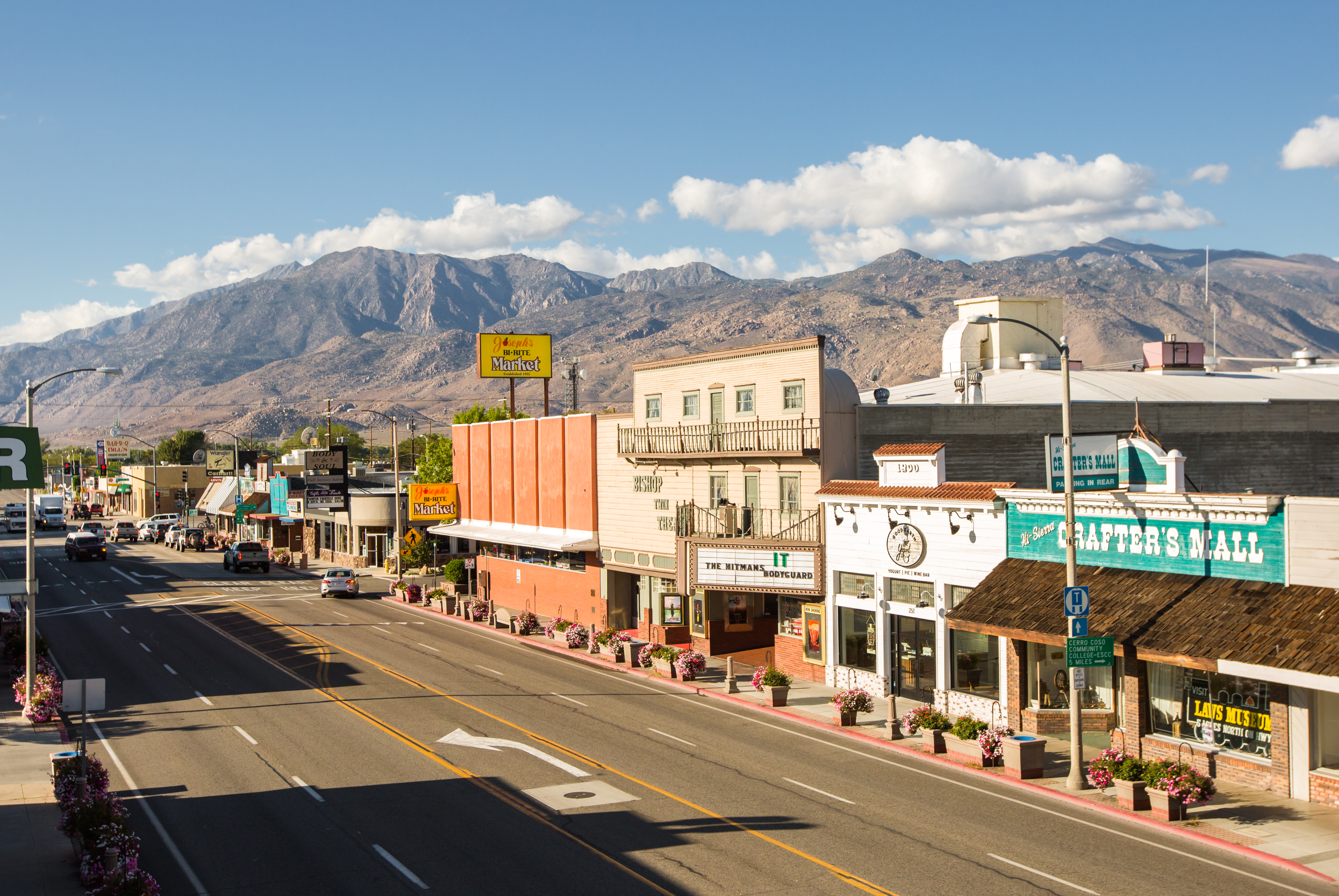 Traveling along Highway 395, Bishop, CA sits near the Sierra Nevada Mountain Range